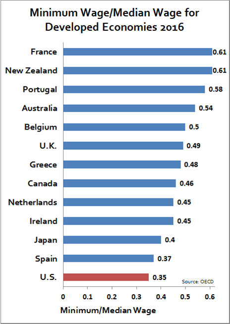 Minimum to medium wage for select OECD countries with the United States highlighted.